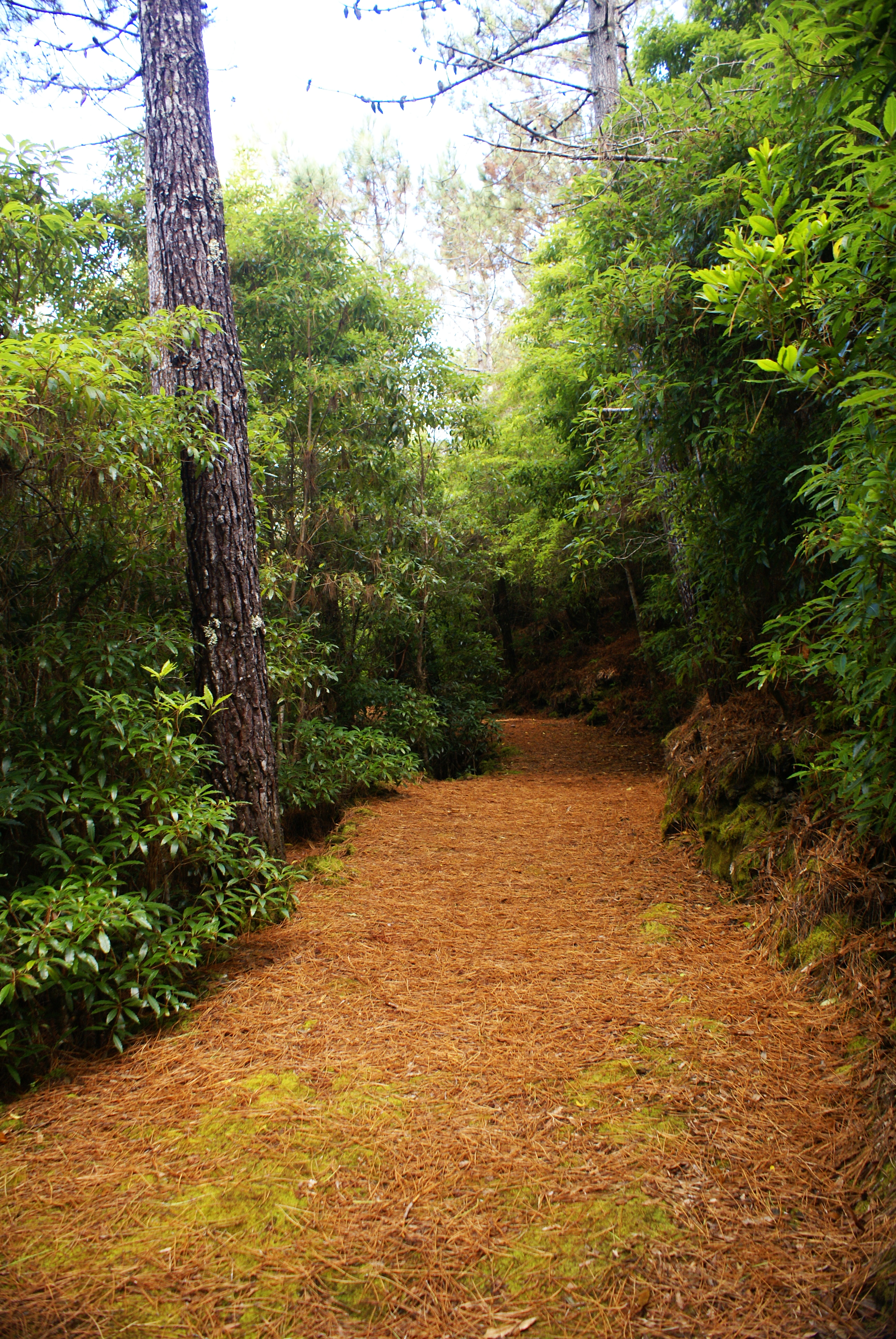 Parque Florestal da Prainha, caminho coberto por caruma de pinheiro, concelho de São Roque do Pico, ilha do Pico, Açores, Portugal